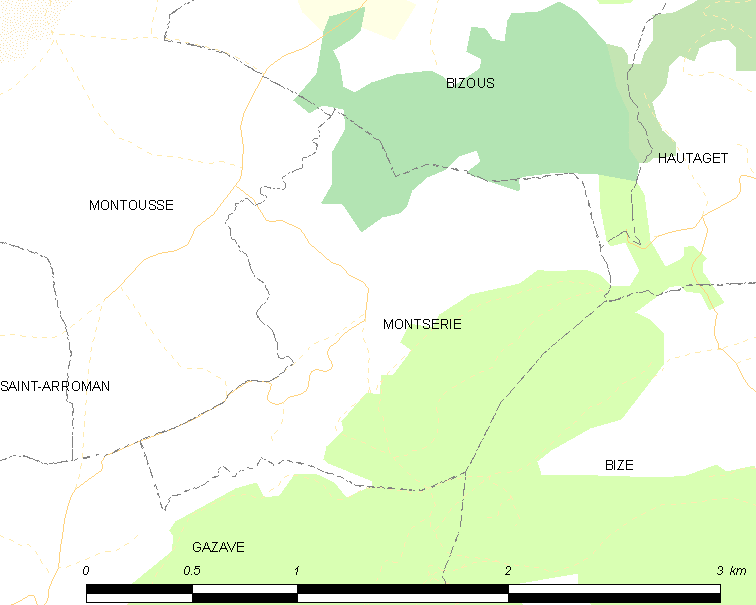 Map of French municipality